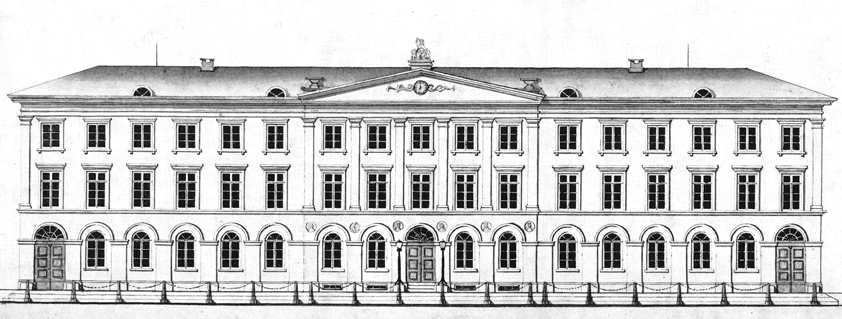 The neoclassical Arbeitshaus in Bremen, Germany, built 1830 by Friedrich Moritz Stamm, destroyed 1944 in an air raid.